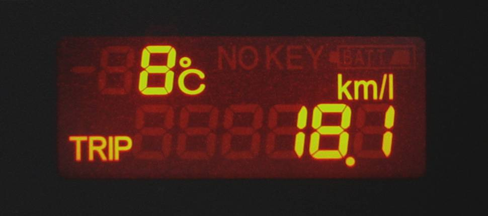 A fuel efficiency meter.(ex. At present, this car needs a liter gas to run 18.1 kilometers.)